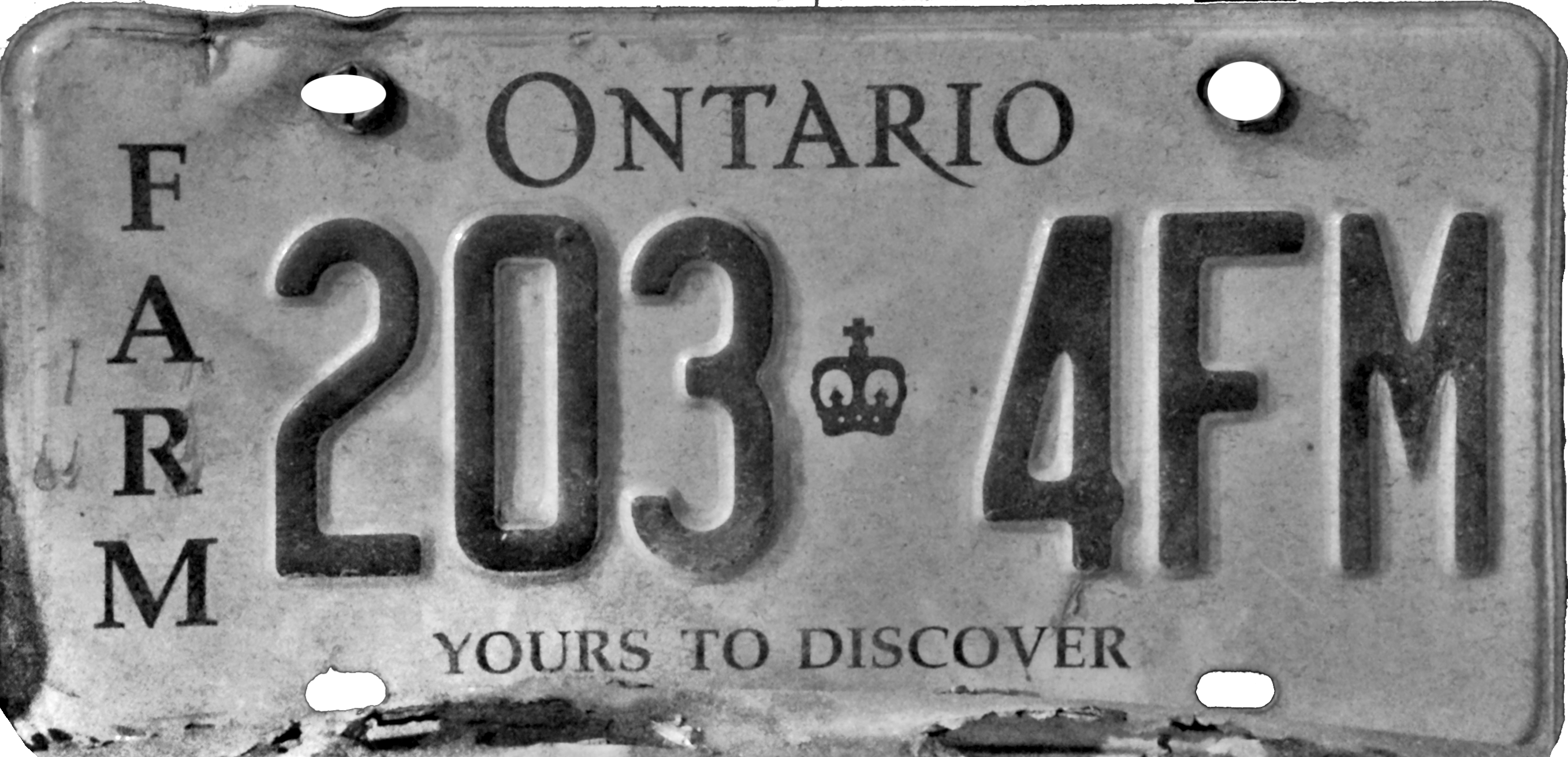 Example of a rear Ontario farm license plate. Vehicles which qualify may be fitted with such plates. They are white with black lettering and bear the word FARM vertically on the left. Farm plates are issued in pairs (front and rear). Annual validation stickers used are the same as those on other passenger vehicles and are affixed to the top right corner of the front plate.